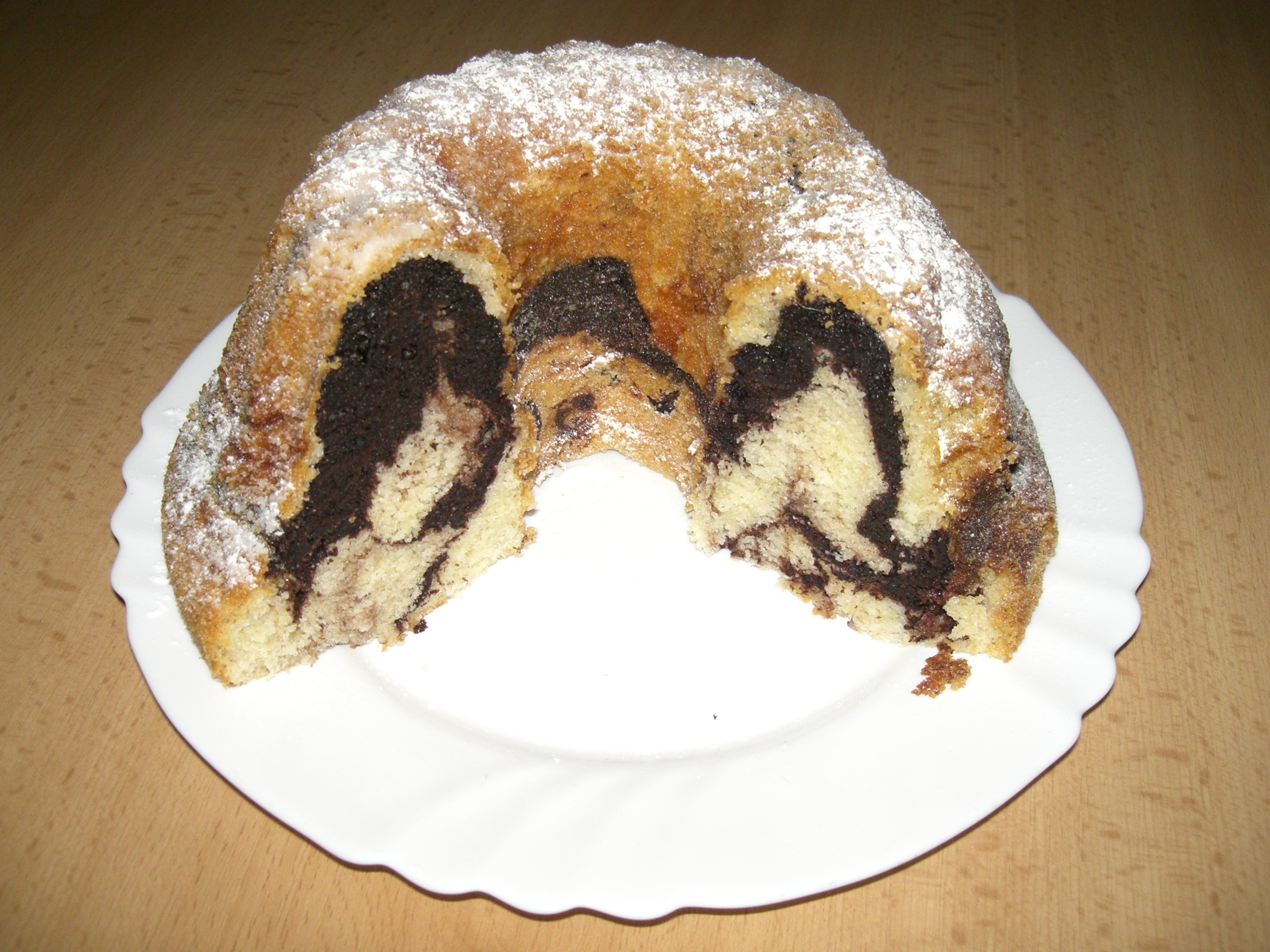 Gugelhupf from the Czech Republic.